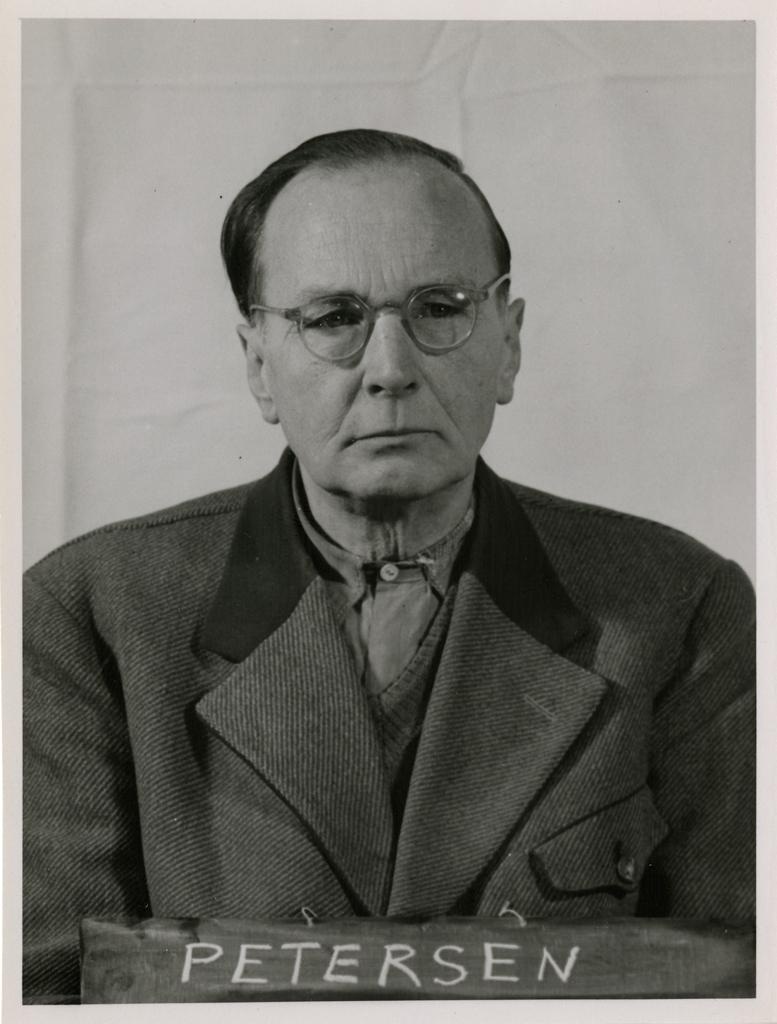 Hans Petersen was Lay Judge of the First Senate of the People's Court during the Second World War. This photograph of Petersen (probably as a defendant during the Nurmeberg Trials No. III - the Justice Case) was taken by US Army photographers on behalf of the Office of the U.S. Chief of Counsel for the Prosecution of Axis Criminality (OUSCCPAC, May 1945 - Oct. 1946) or its successor organization, the Office of Chief of Counsel for War Crimes (OCCWC, Oct. 1946 - June 1949).